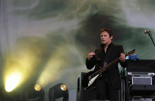 Alex Lee, a British musician